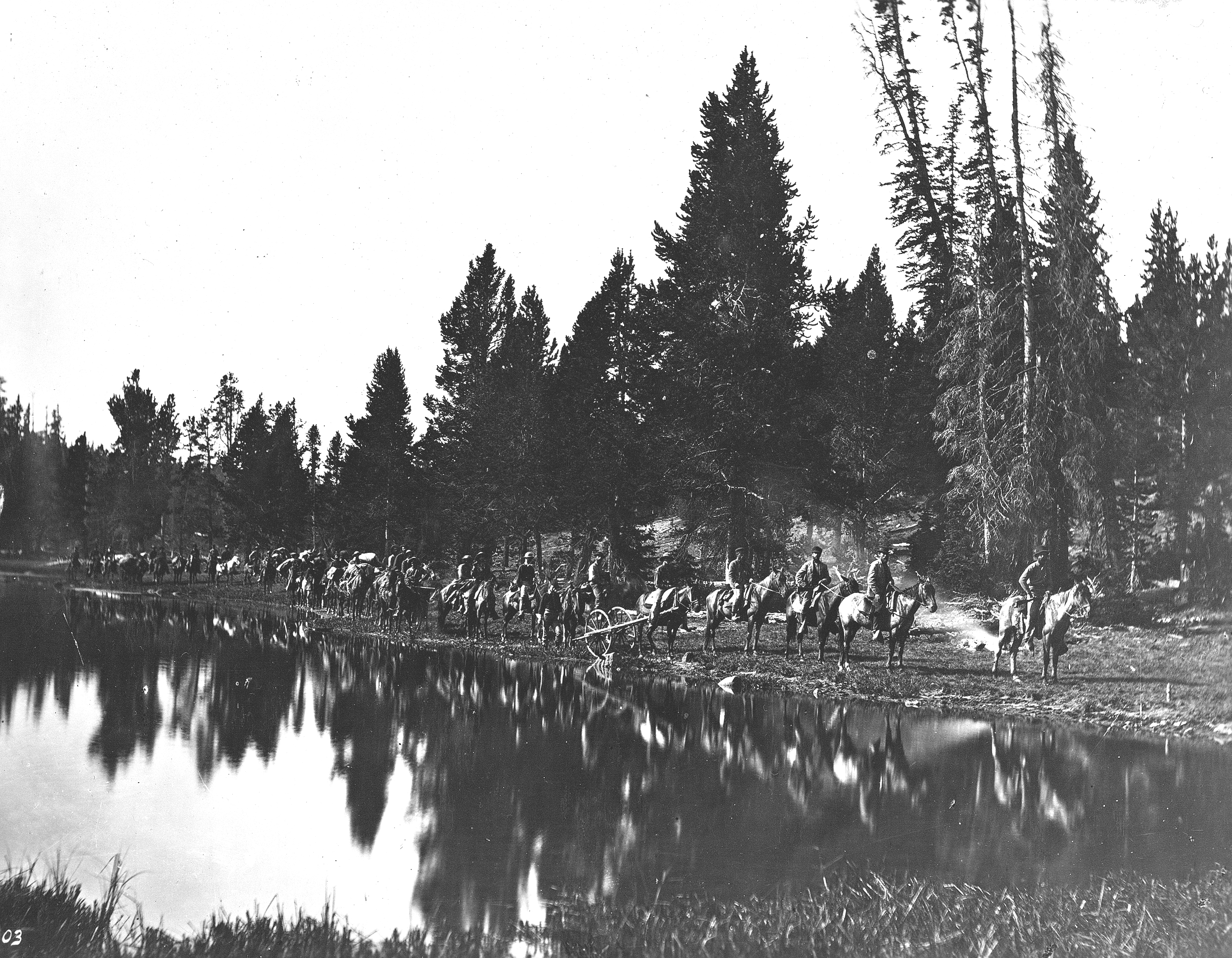 Yellowstone National Park, Wyoming. Survey party, with pack train, en route upon the trail between the Yellowstone River and East Fork, showing the manner in which all parties traverse these wilds. 1871.U.S. Geological and Geographical Survey of the Territories (Hayden Survey). Photo by Jackson, W.H.